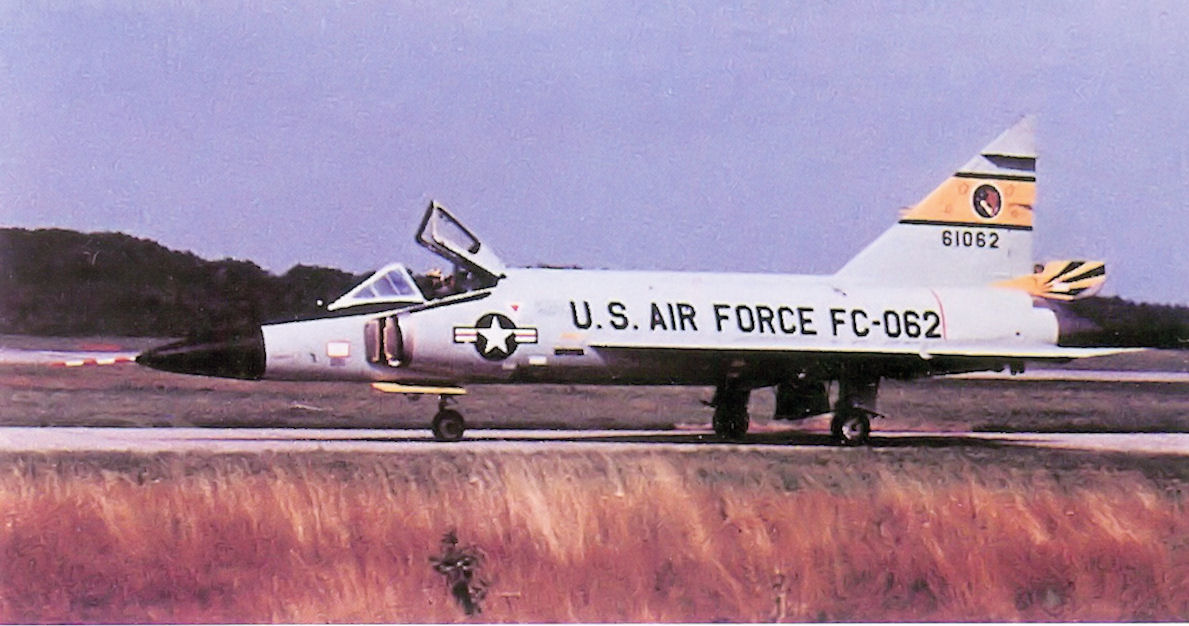 496th Fighter-Interceptor Squadron Convair F-102 Delta Dagger 56-1062